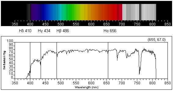 Solar spectrum with Fraunhofer lines & corresponding intensity vs. wavelength plot. IR and UV areas are grayed Hydrogen Balmer lines (Hα-δ)are marked as vertical lines. Created with Virtual Spectroscope, online version